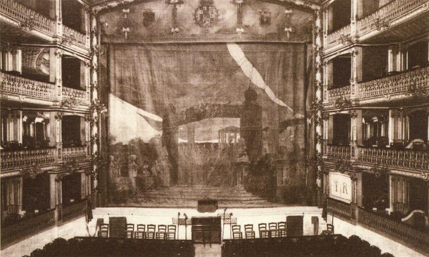 Inside of Teatre Romea, in Barcelona, 1914